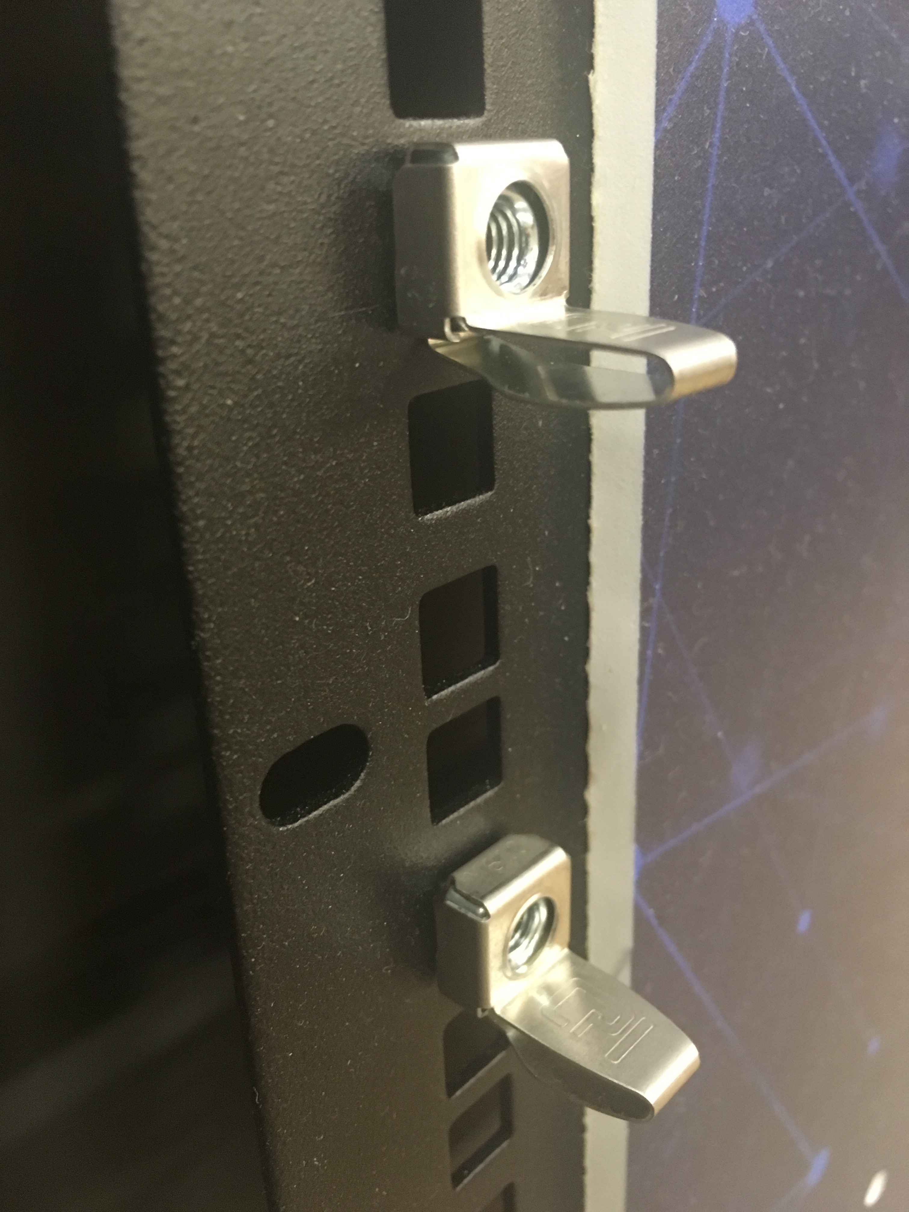 Newer designs of cage nut eliminates the need for installation tools